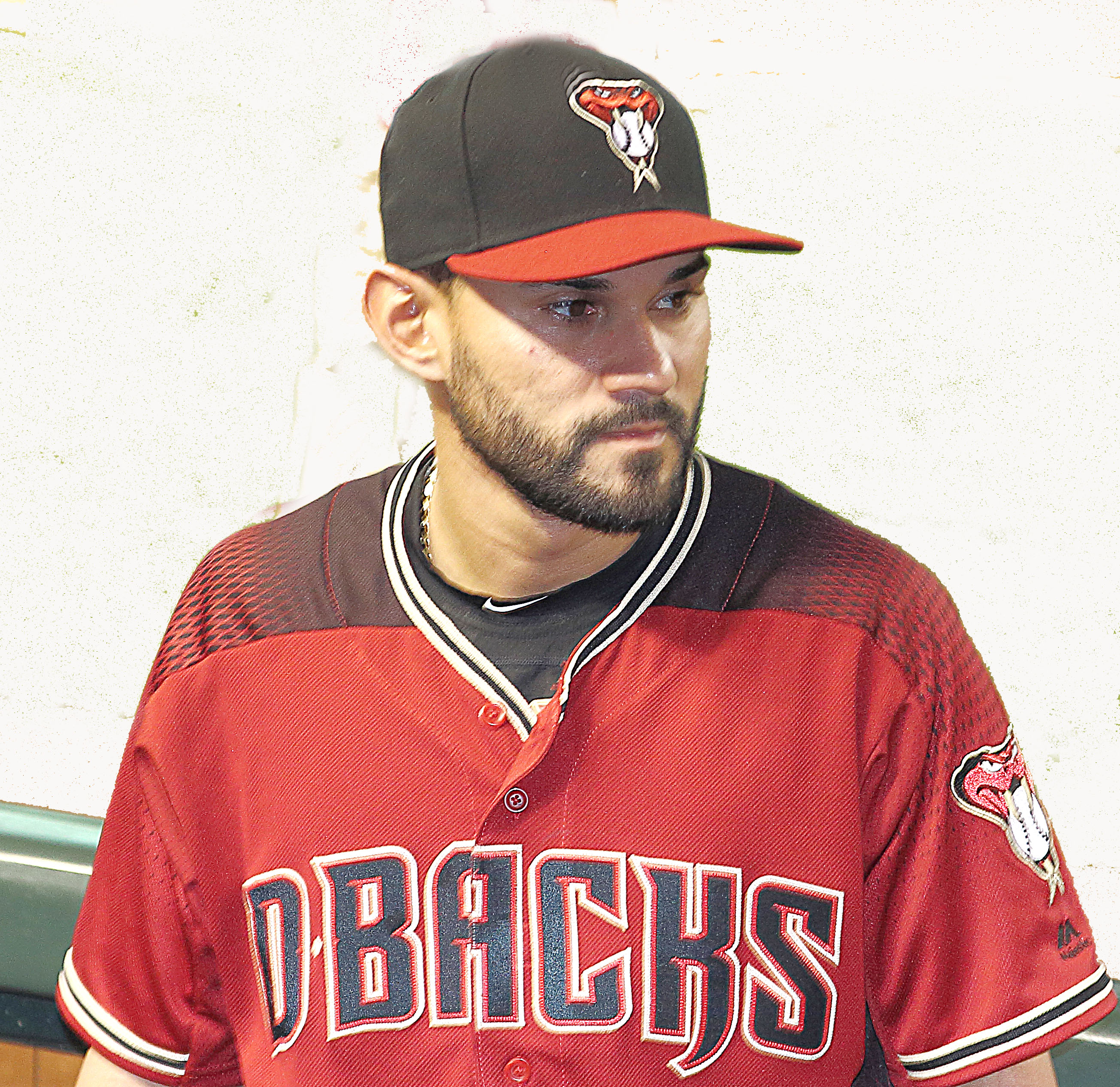 Rey Fuentes